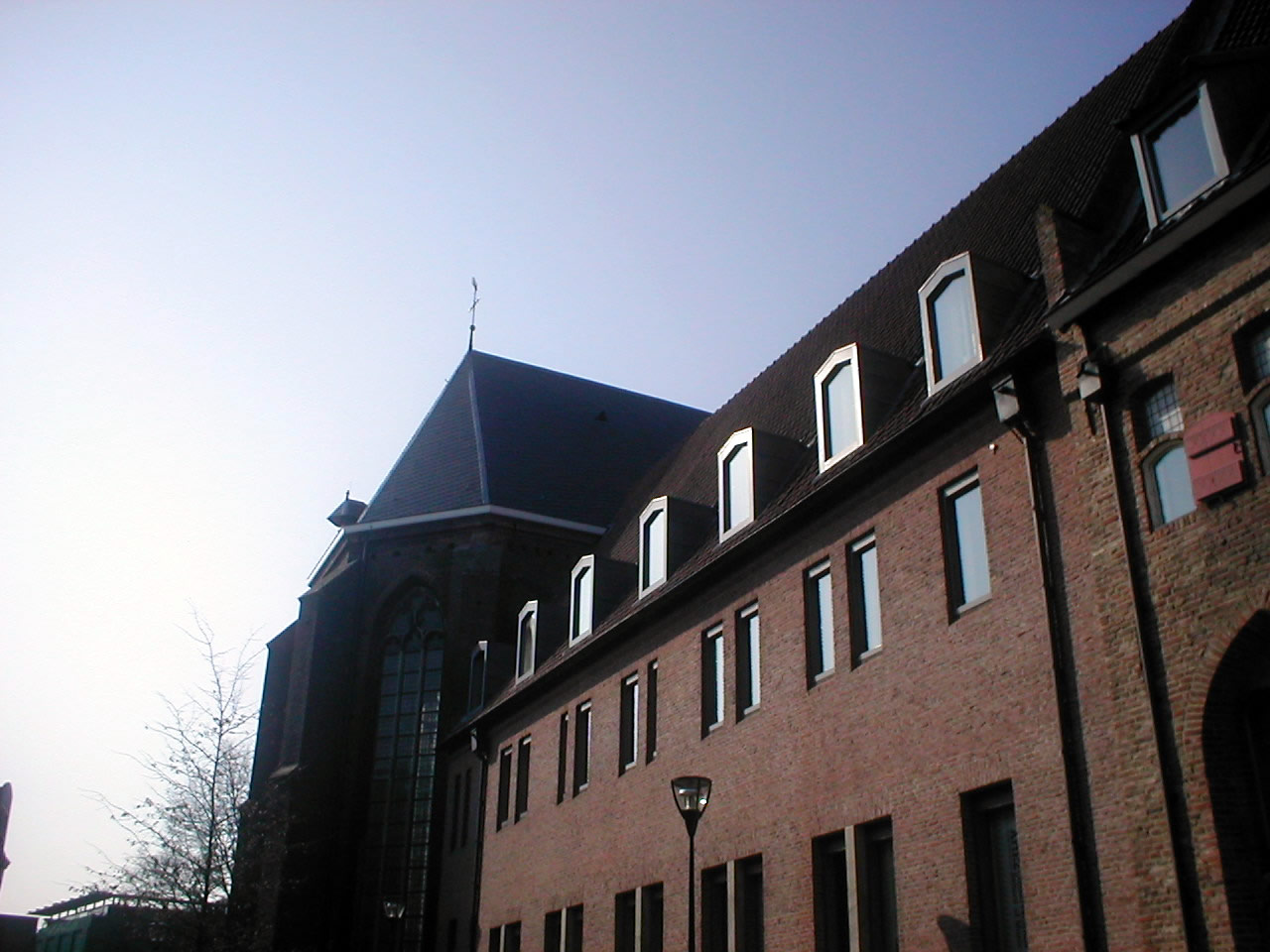 The Zwolle Conservatory, part of Artez Hogeschool